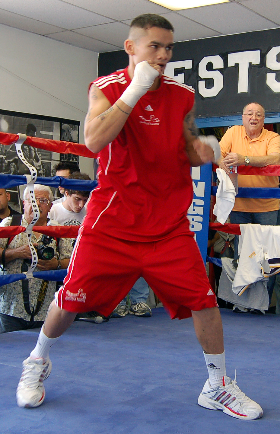 Marcos Maidana at the Westside Boxing Club in Los Angeles. (excerpt from the original text)